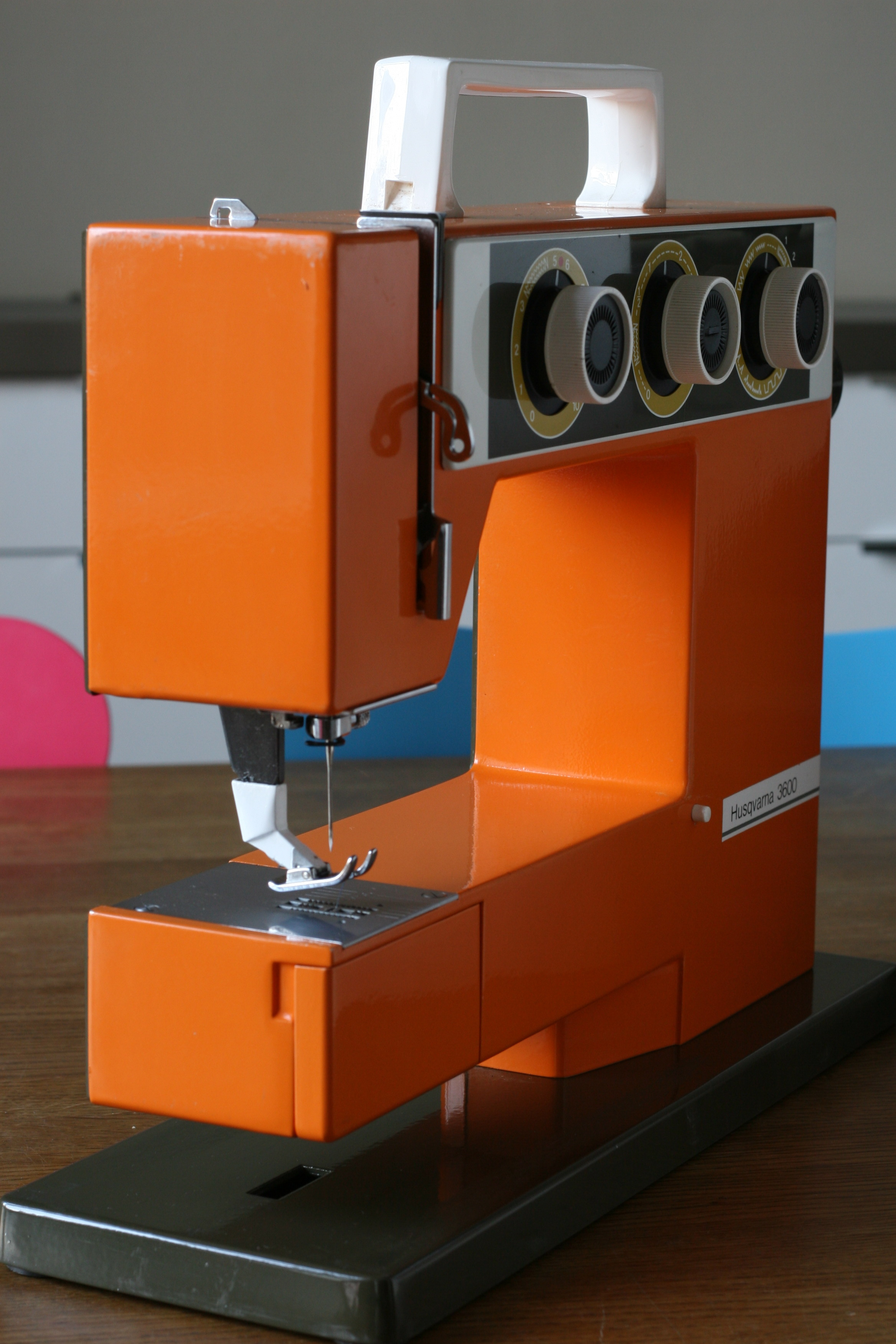 A Husqvarna 3600 sewing machine